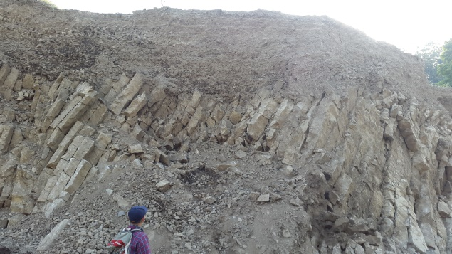 Columns of igneous rock in Pelabuhan Ratu District, Sukabumi Regency, West Java, Indonesia.